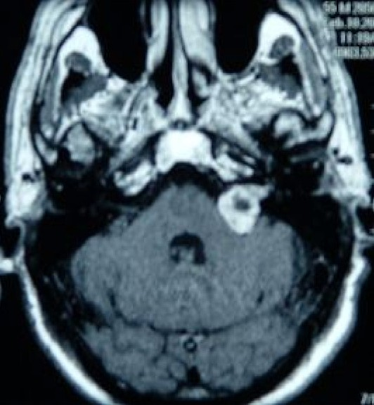 A 51 year old woman presented with progressive hearing loss. An axial MRI of the brain After gadolinium administration demonstrated a left cerebellopontine angle acoustic neuroma.